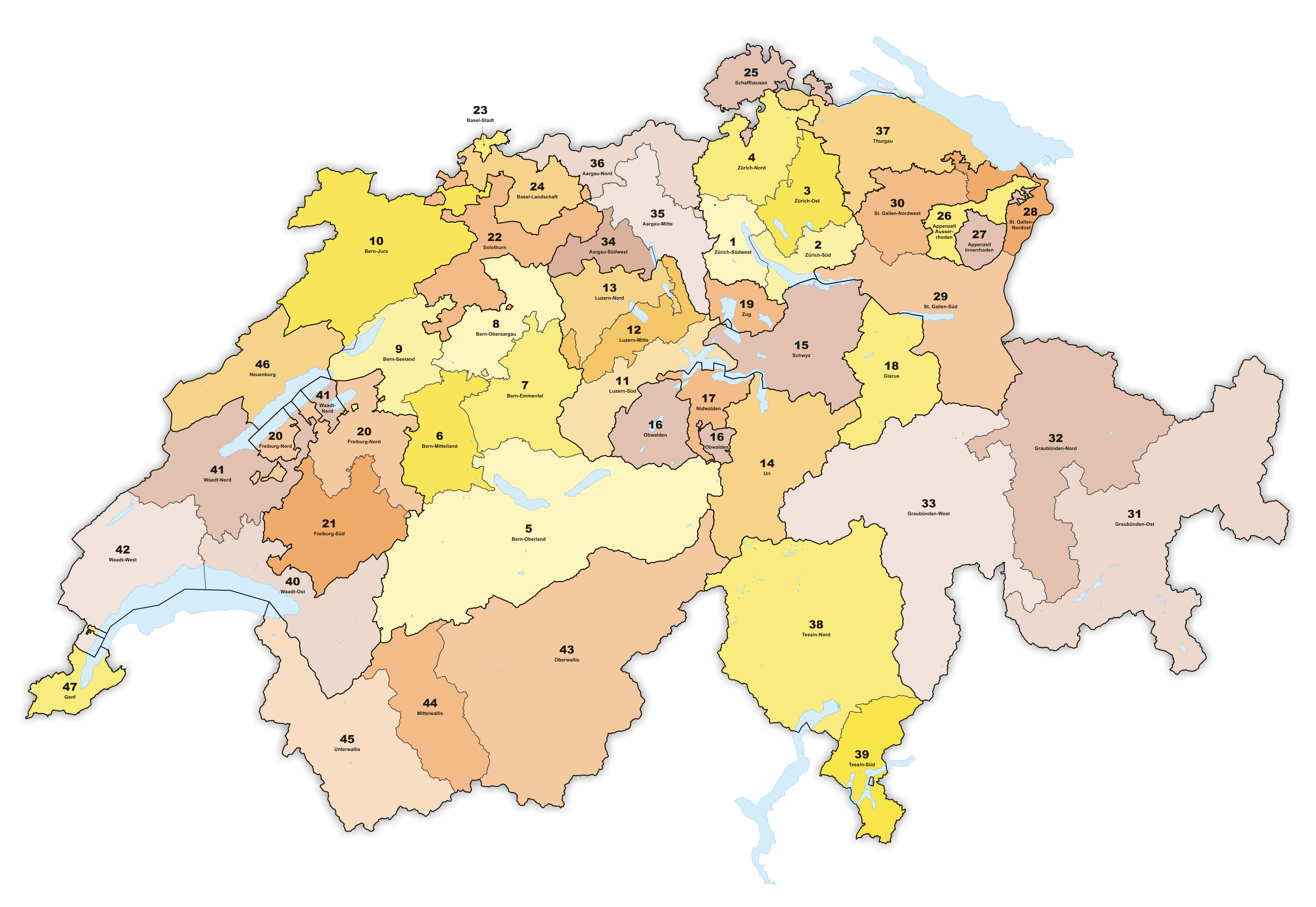 Swiss national council constituencies from 1863 to 1869